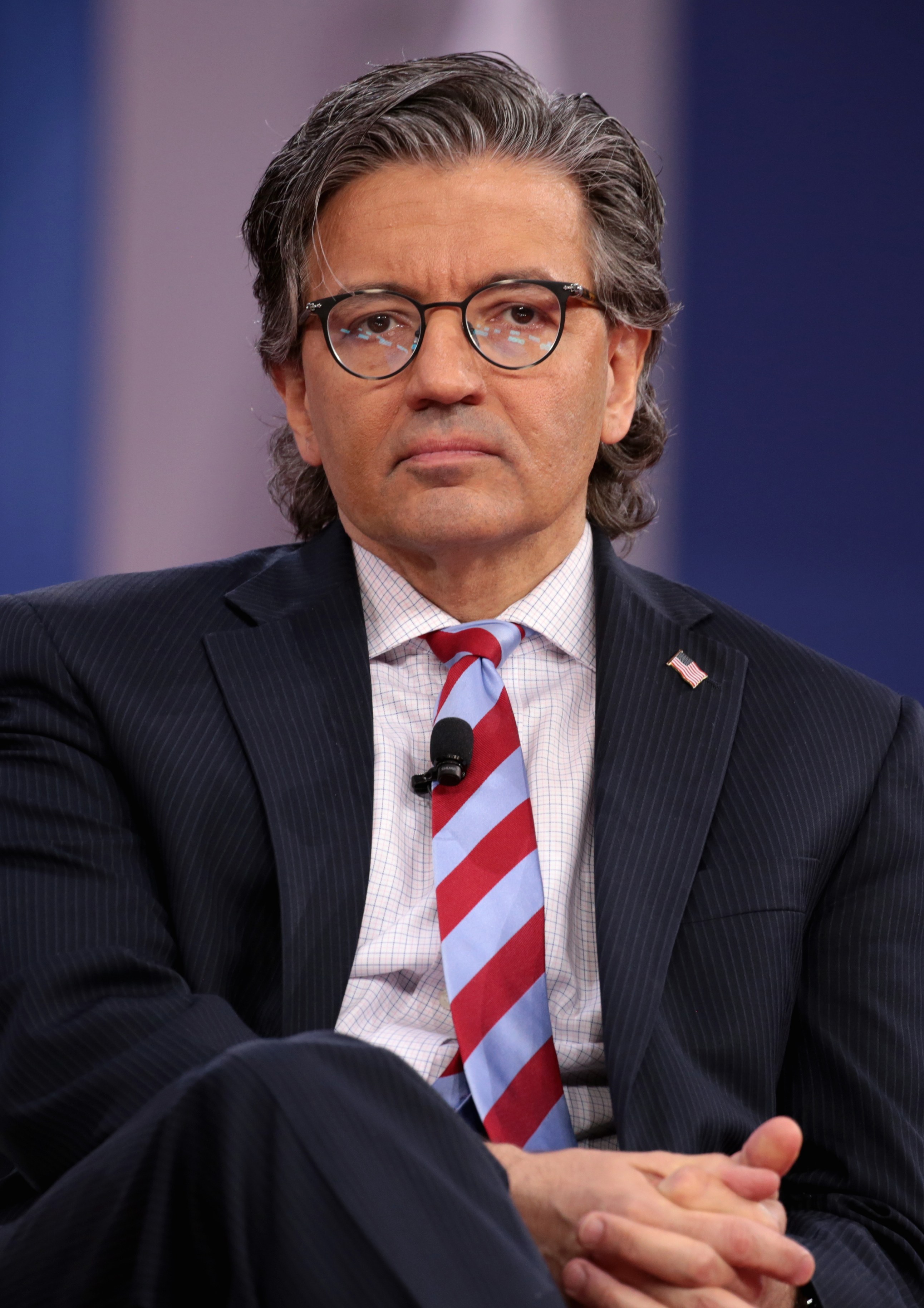 M. Zuhdi Jasser speaking at the 2018 CPAC in National Harbor, Maryland.